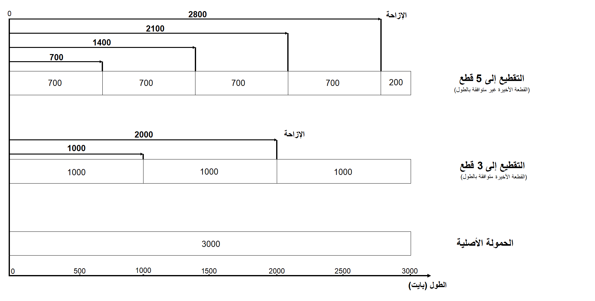 The concept of offset in a fragmentation of a Protocol Data Unit (PDU).